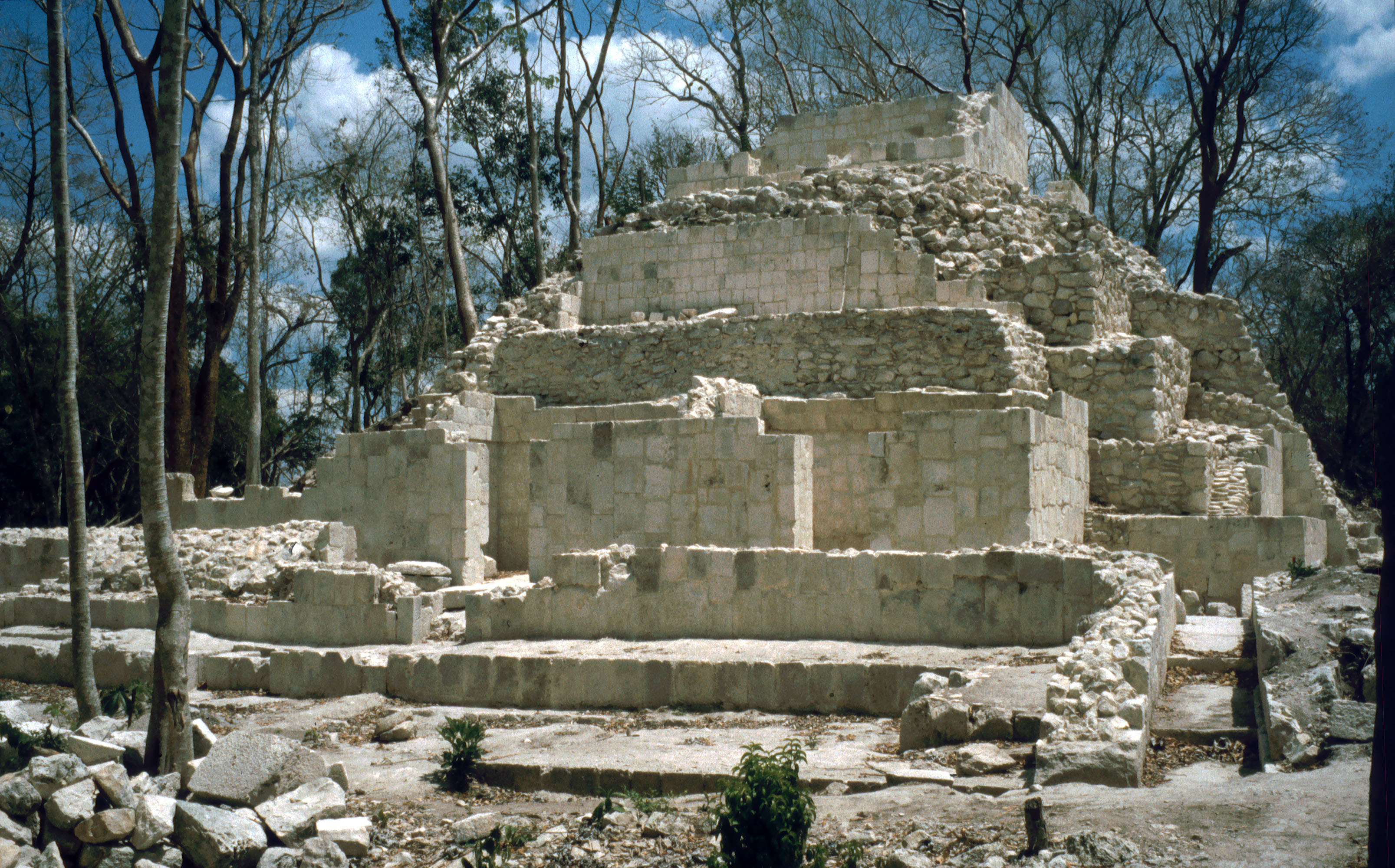 Acanmul, Campeche, Mexico: main palace.